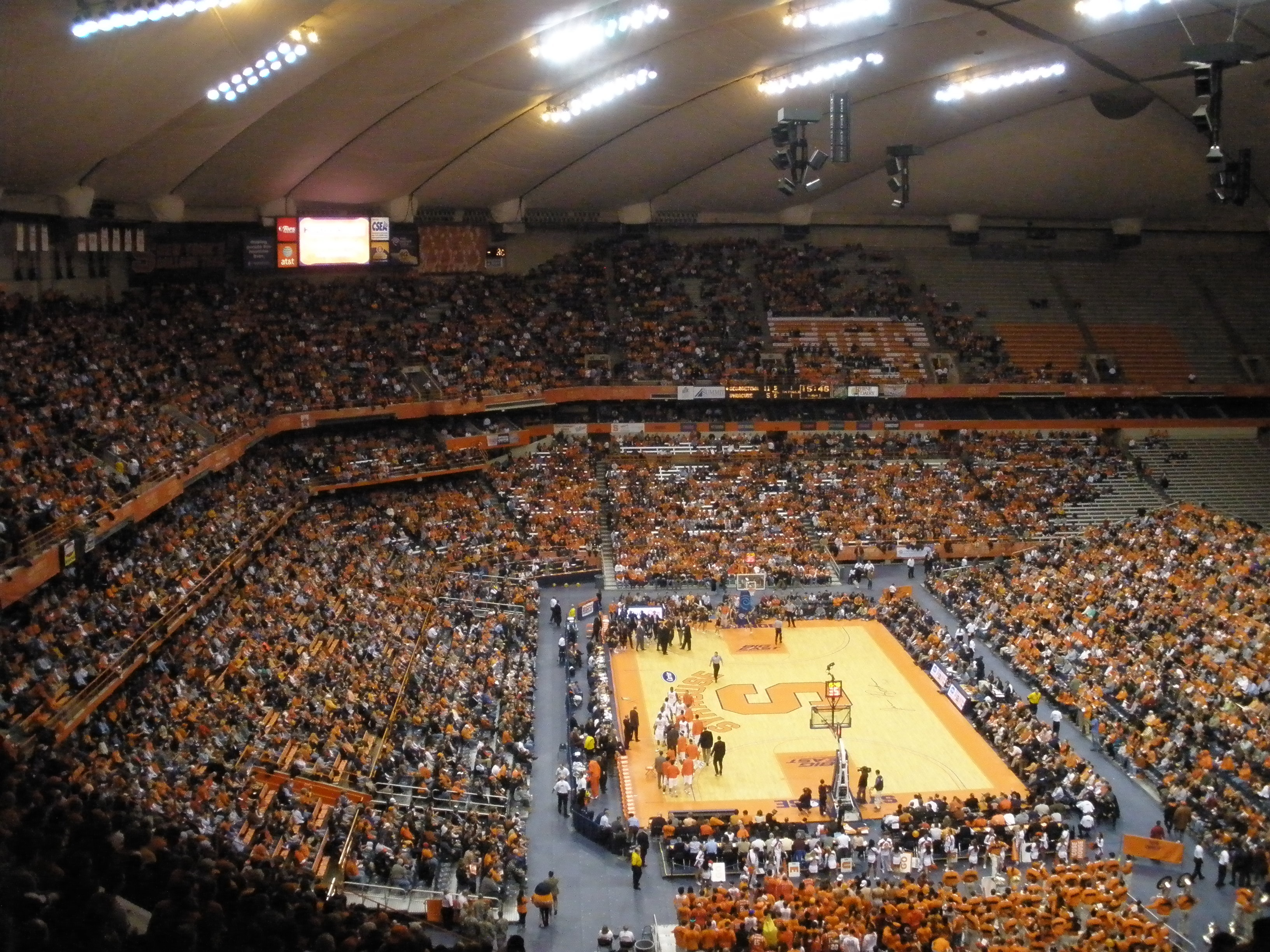 The Carrier Dome in Syracuse (Syracuse Orange basketball)